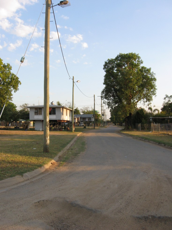 bruceanthro personal photo taken 14 November 2008 while on visit to Kowanyama. View down Ogimburngk St (from Gilbert St), Kowanyama.